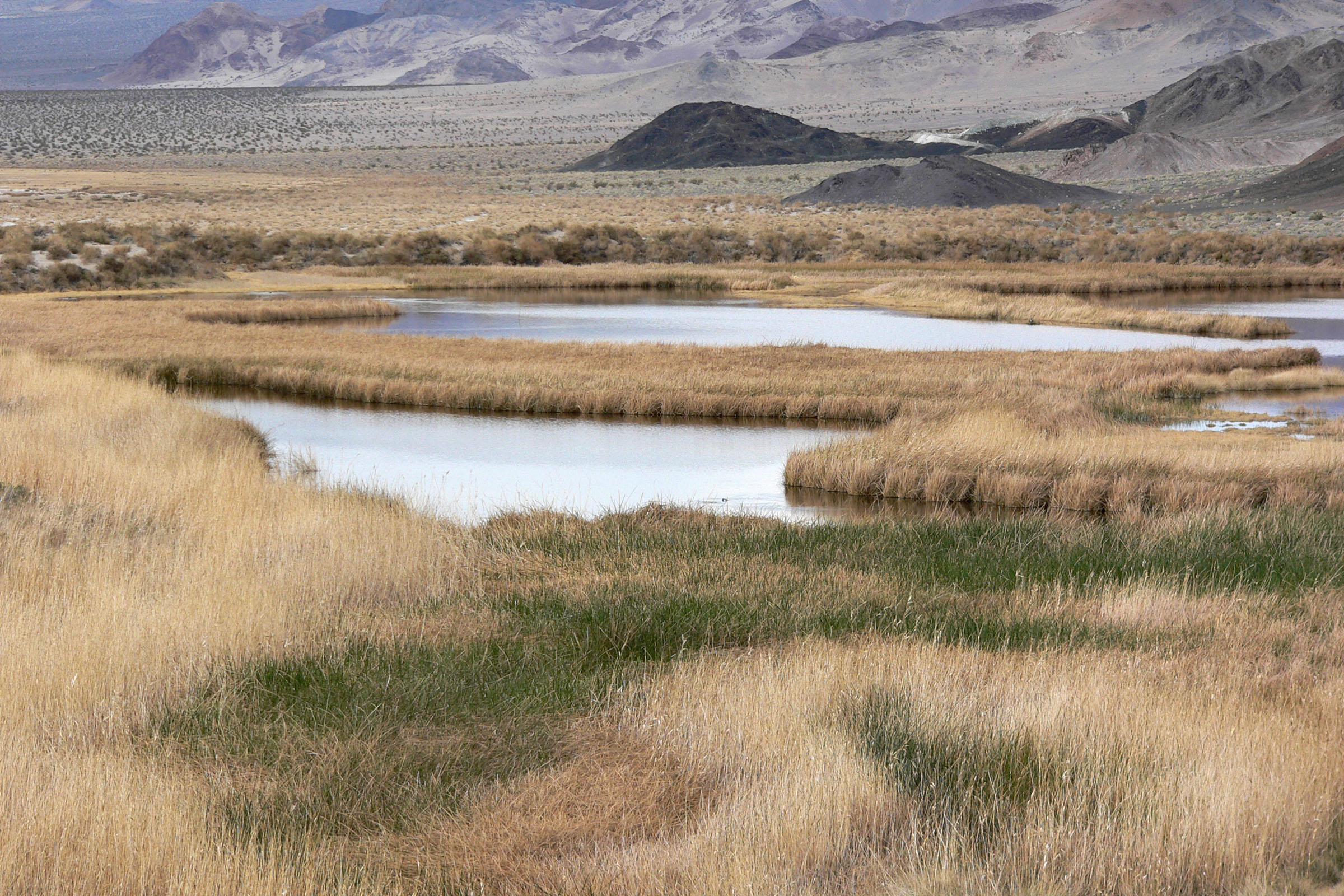 Saratoga Spring, southern Death Valley, California